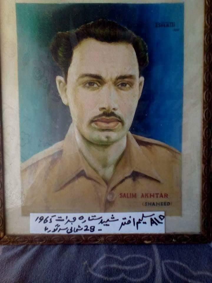 Saleem Shaheed is a War Hero of Mota Gharbi Pakistan